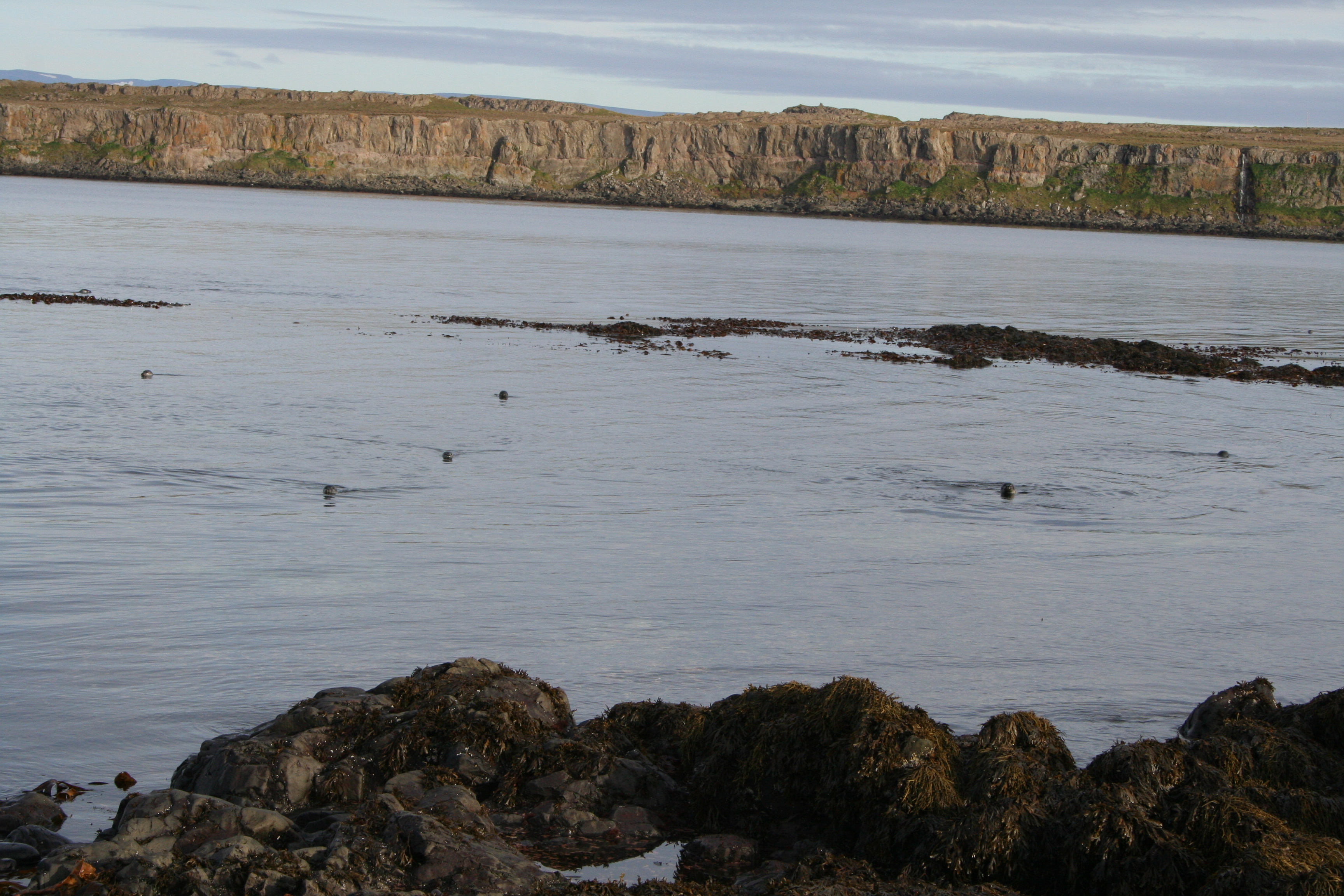 Seals at Hindisvík coming in for a "closer" look.